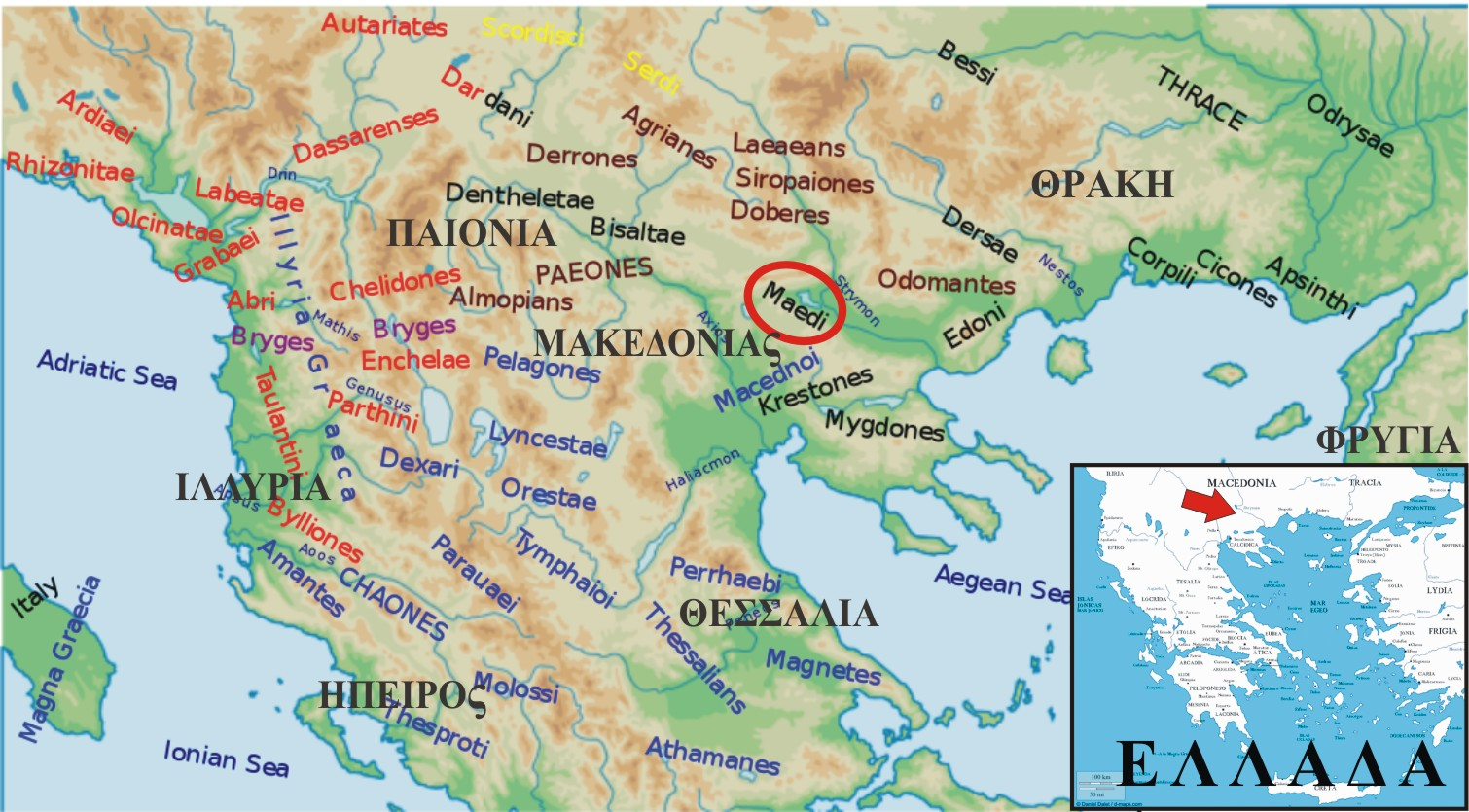 Ancient Greece, Maidoi/Maedi (Μαιδοι/Meadows), Macedonia. Greek Thrace. Classical and Hellenistic Age. Sources: N G Hammond, The Kingdoms of Illyria c. 400 - 167 BC. Collected Studies, Vol 2, 1993. J Wilkes. The Illyrians. Blackwell, 1992. A Toynbee. What was the ancestral language of the Paeones?. Chapter V, Some Problems of Greek History, 1969 Z Archibald Space, Hierarchy & Community in Archaic & Classical Macedonia, Thessaly & Thrace; Fig 12.3. Empty map from: Dodona location.svg Derived from; Map of ancient Epirus and environs (English).svg & Ancient Greeks *Paeonians Illyrians Thracians Contact Zone Map (English).png Bassed on the work of Mary Rose (B54)